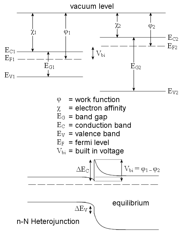 The important variables for heterojunction characterization and analysis are defined for two semiconductors physically separated (top) and joined in chemical equilibrium (bottom).